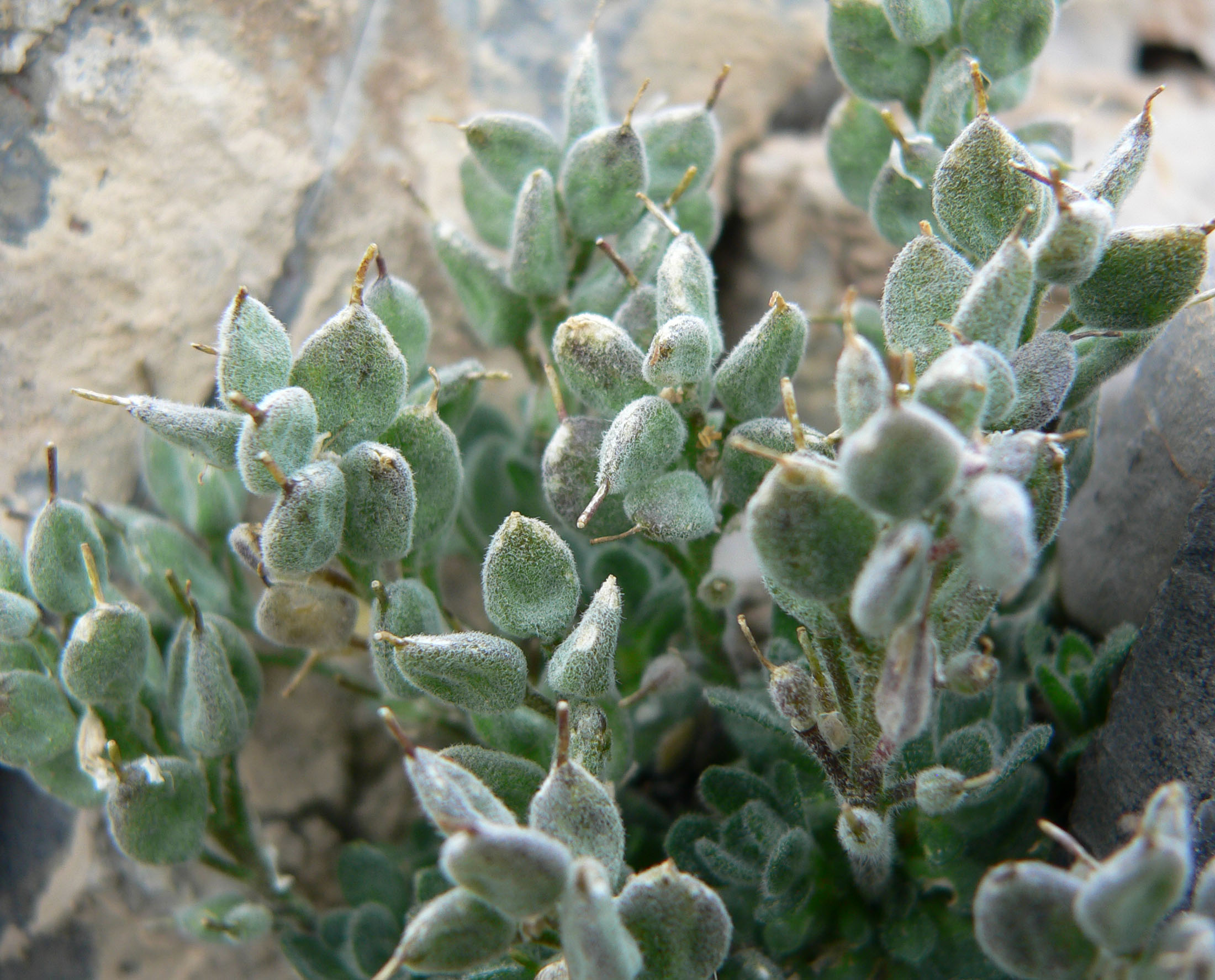 Draba jaegeri at treeline on the NW face of Charleston Peak, Spring Mountains, southern Nevada (elev. about 3500 m)